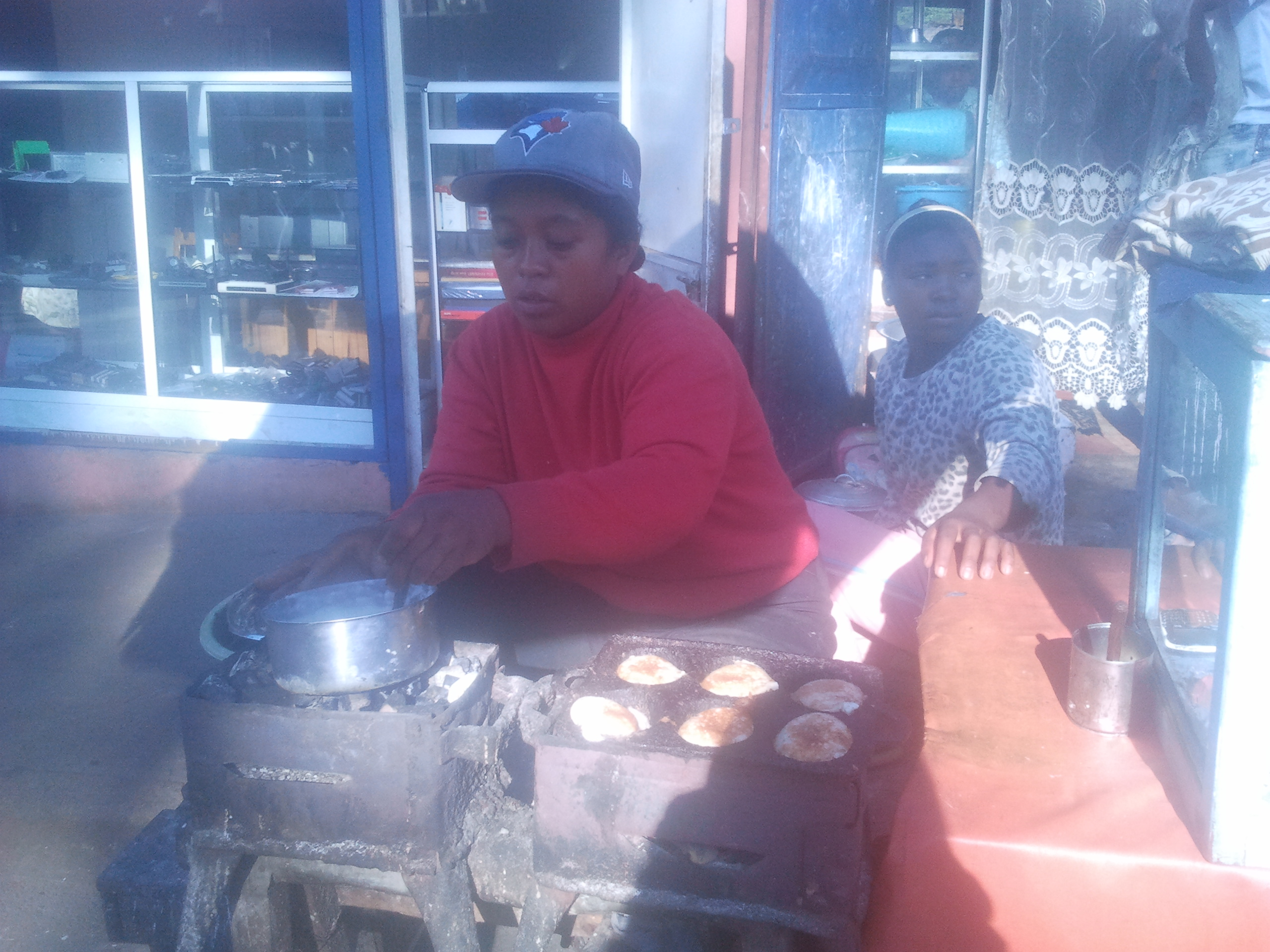 olona mpivarotra mokary en ankatso